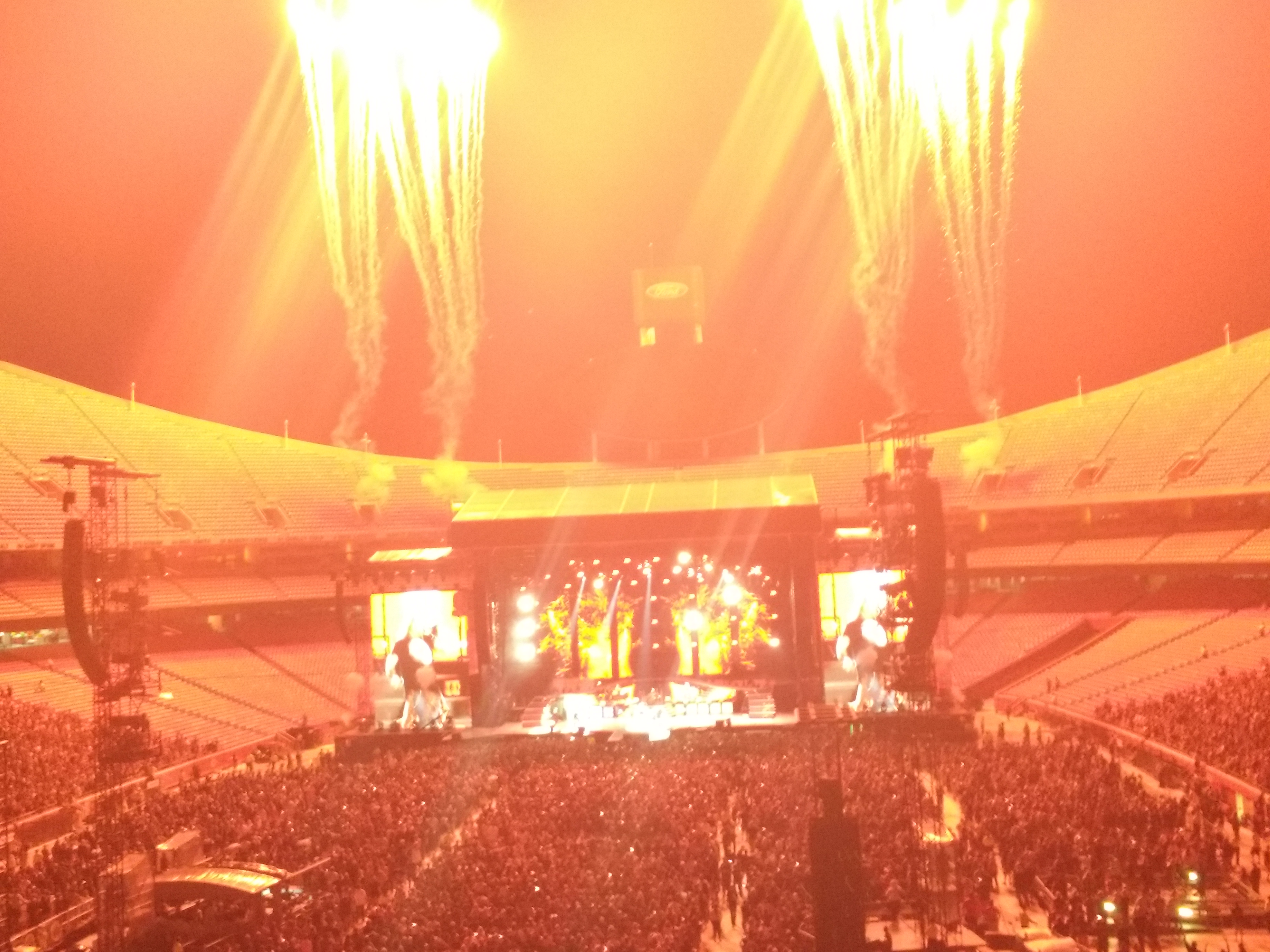 Guns N' Roses performing as part of the "Not In This Lifetime...' Tour on June 29, 2016 In Arrowhead Stadium in Kansas City, Missouri, USA.